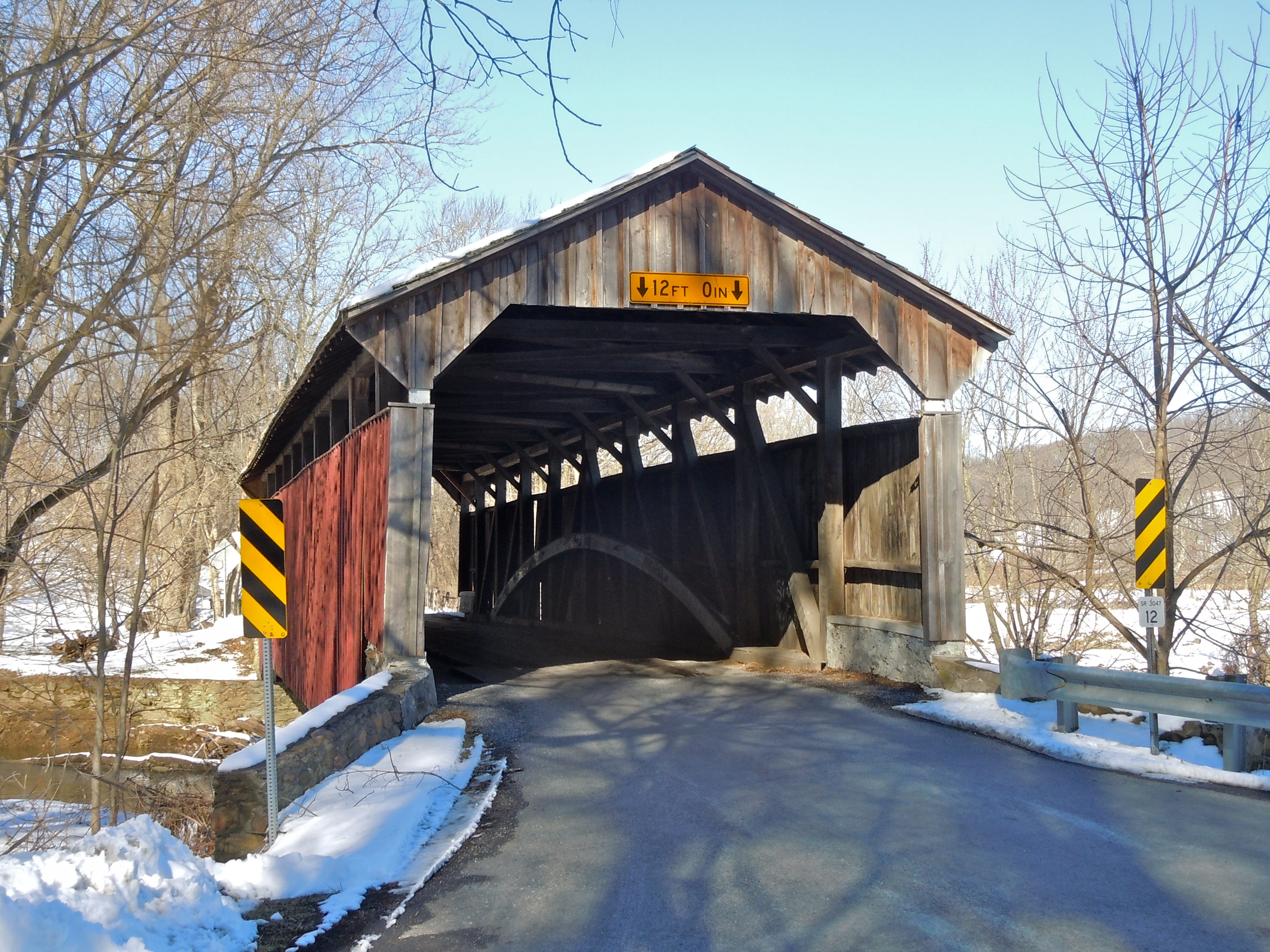 Speakman Covered Bridge No. 1 (not to be confused with No. 2 -aka Maryanne Pyle CB) looking north on the NRHP since December 10, 1980. South of Coatesville, north of Doe Run Village on Legislative Route 15068, near Modena. Road perpendicular to bridge is called Covered Bridge Road. Road on the bridge is called Frog Hollow Road.